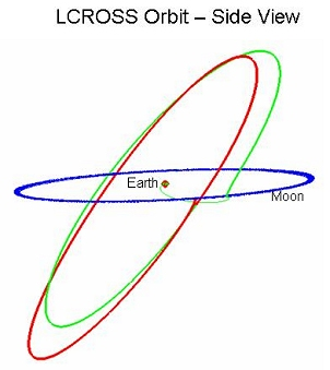 Figures 1 and 2 depict the trajectory that will be used to target the LCROSS Centaur upper stage and Shepherding Spacecraft into a North or South Pole crater. The 86-day (5 day earth-lunar transit plus 81 day earth orbit) Lunar Gravity-Assist, Lunar Return Orbit (LGALRO) was chosen to allow LRO time to complete its two-month commissioning phase and conduct nearly a month of science data collection of polar crater measurements.